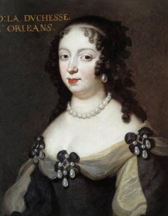 The Duchess of Orléans, Portrait of Marguerite of Lorraine (1615-1672), misidentified with Elizabeth Charlotte, Princess Palatine (1652-1722)